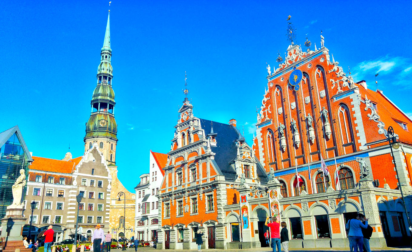 Riga - 2014 European Capital of Culture (Latvia)